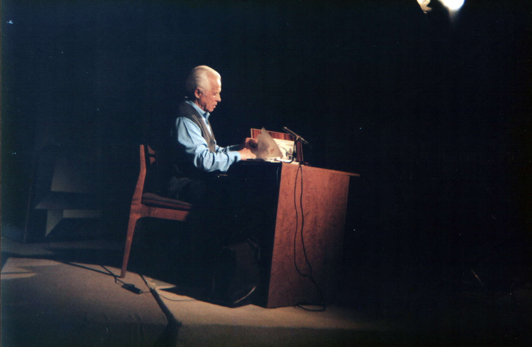 2nd studio GTRK "Saratov". Dmitry Sergeevich Khudyakov (5 minutes to the air)